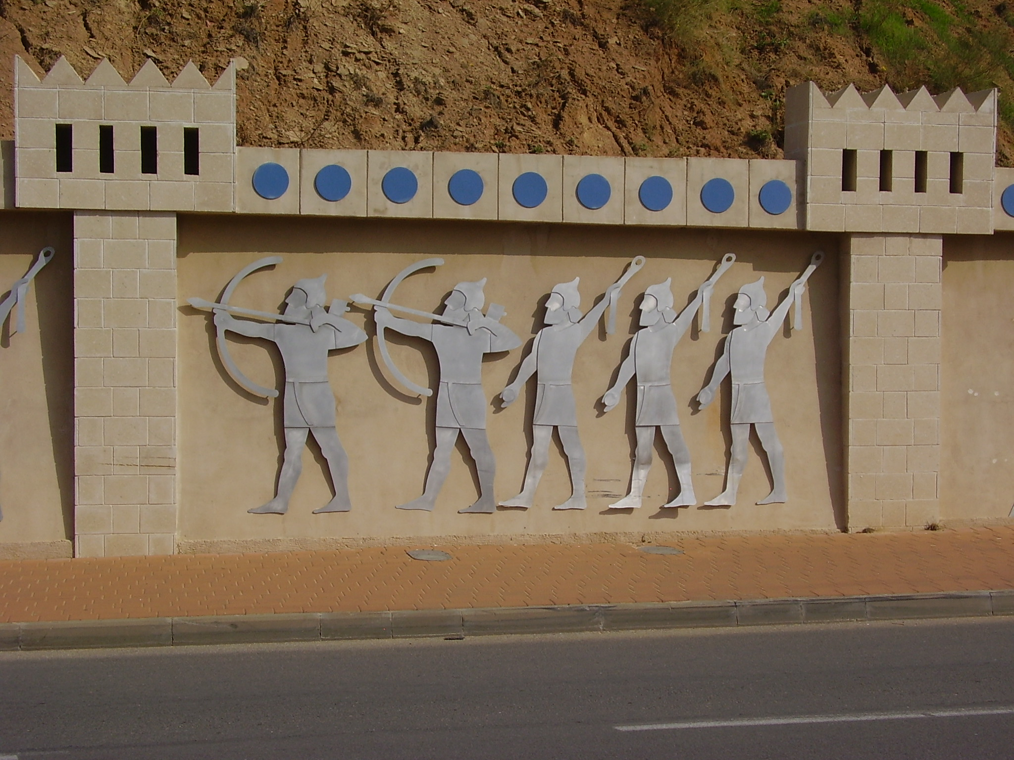 assyrian fortress in rishon lezion